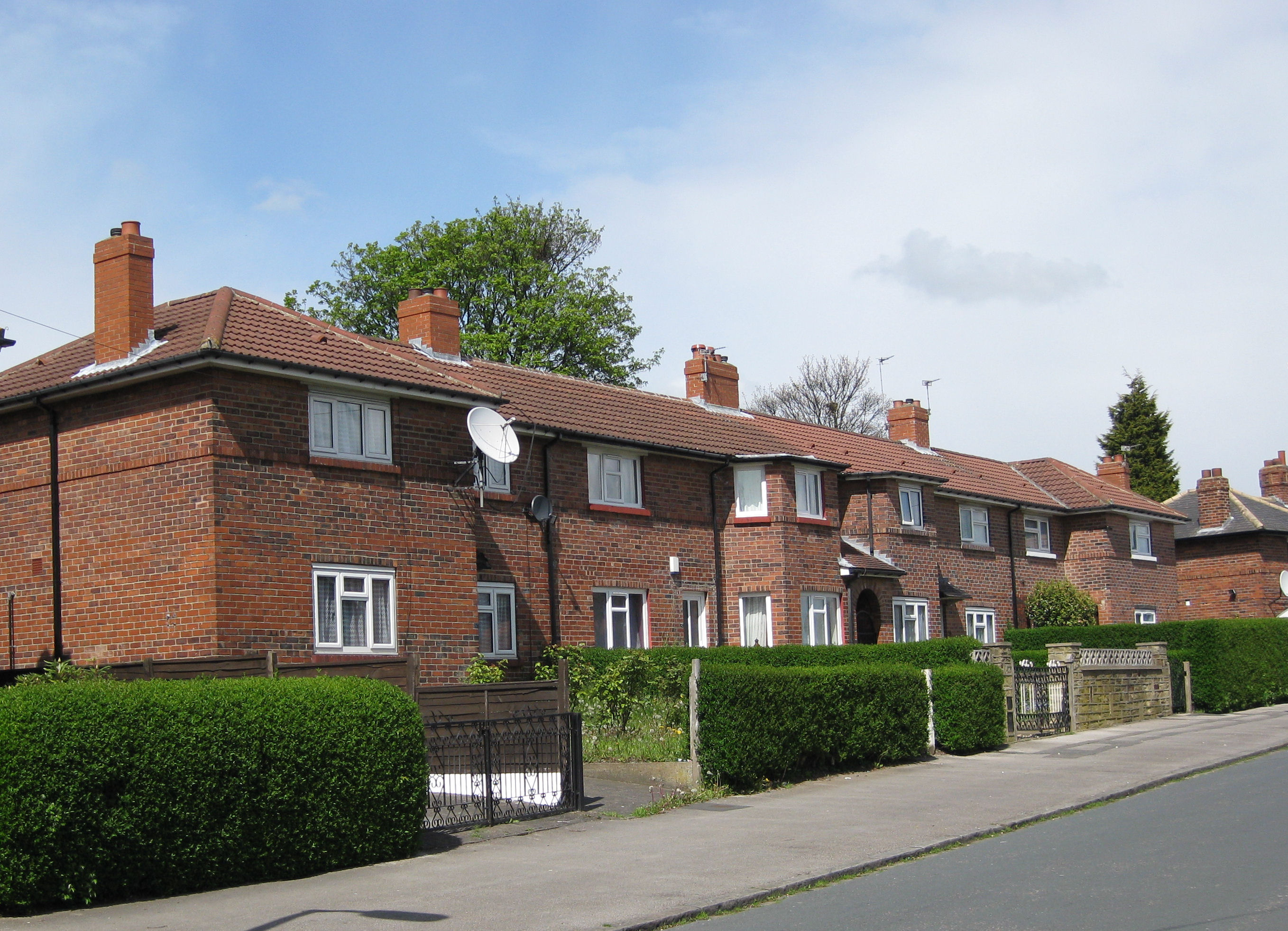 Miles Hill View, Leeds 17. 1920's council houses.